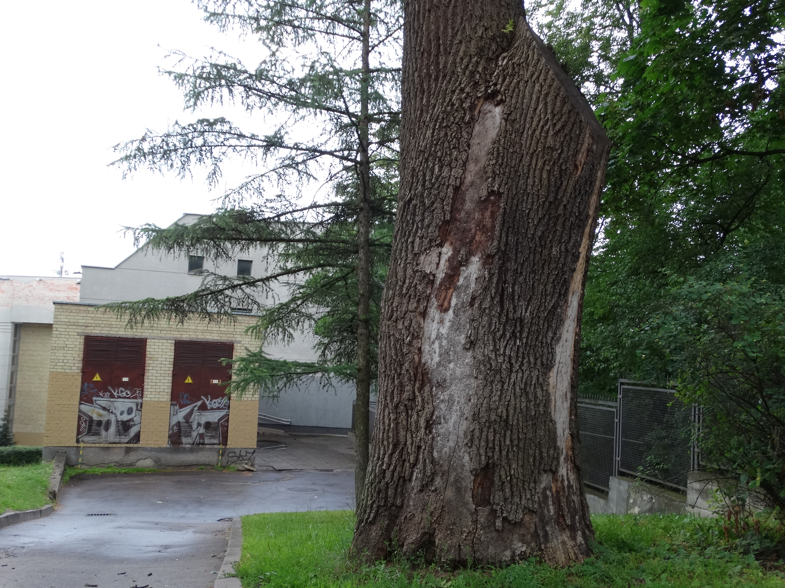 Fraxinus tree in Rose Alley, Vilnius, Lithuania